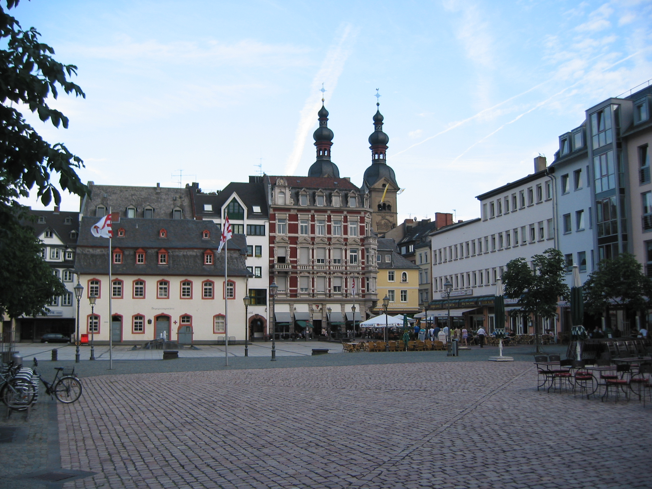 Koblenz Market Square, Germany.